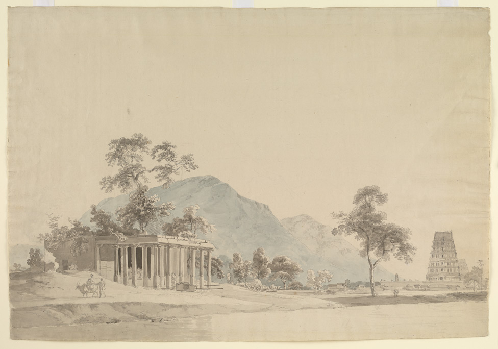 From the source, Pencil and wash drawing by Thomas and William Daniell of a temple and choultry (a travellers' rest house) at Binjaveram in Tamil Nadu, dated 18 April 1792. Inscribed on back in ink: 'Nr 74. Brinjaveram Choultry and Pagoda.' From March 1792 to February 1793 the Daniells travelled through South India. Arrived in Madras, they travelled south-west trough the flat paddy fields, passed the rocky hills surrounding Arcot and the dramatic hilly country south of Bangalore. They visited the great Hindu temples of Tamil Nadu and continued until the southern tip of the peninsula. At that time the Tinnevelly district was still unmapped and unadministered by the British. The artists often spent the nights in travellers' rest houses, known in South India as 'choultry'.